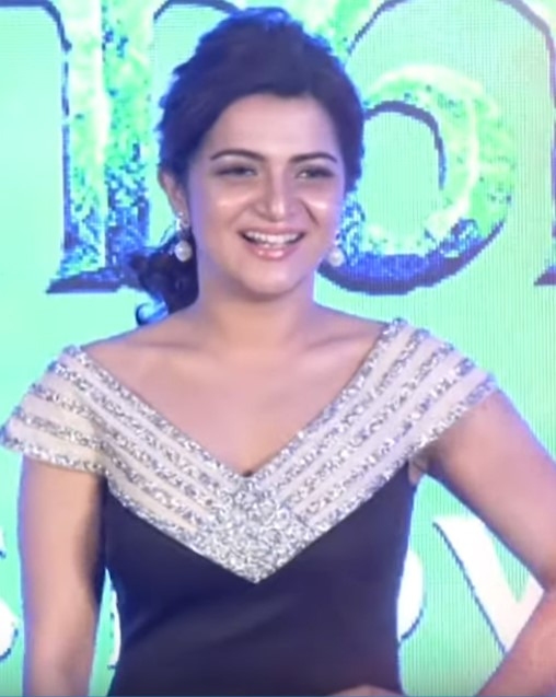 DD at "Frozen 2" Tamil press meet